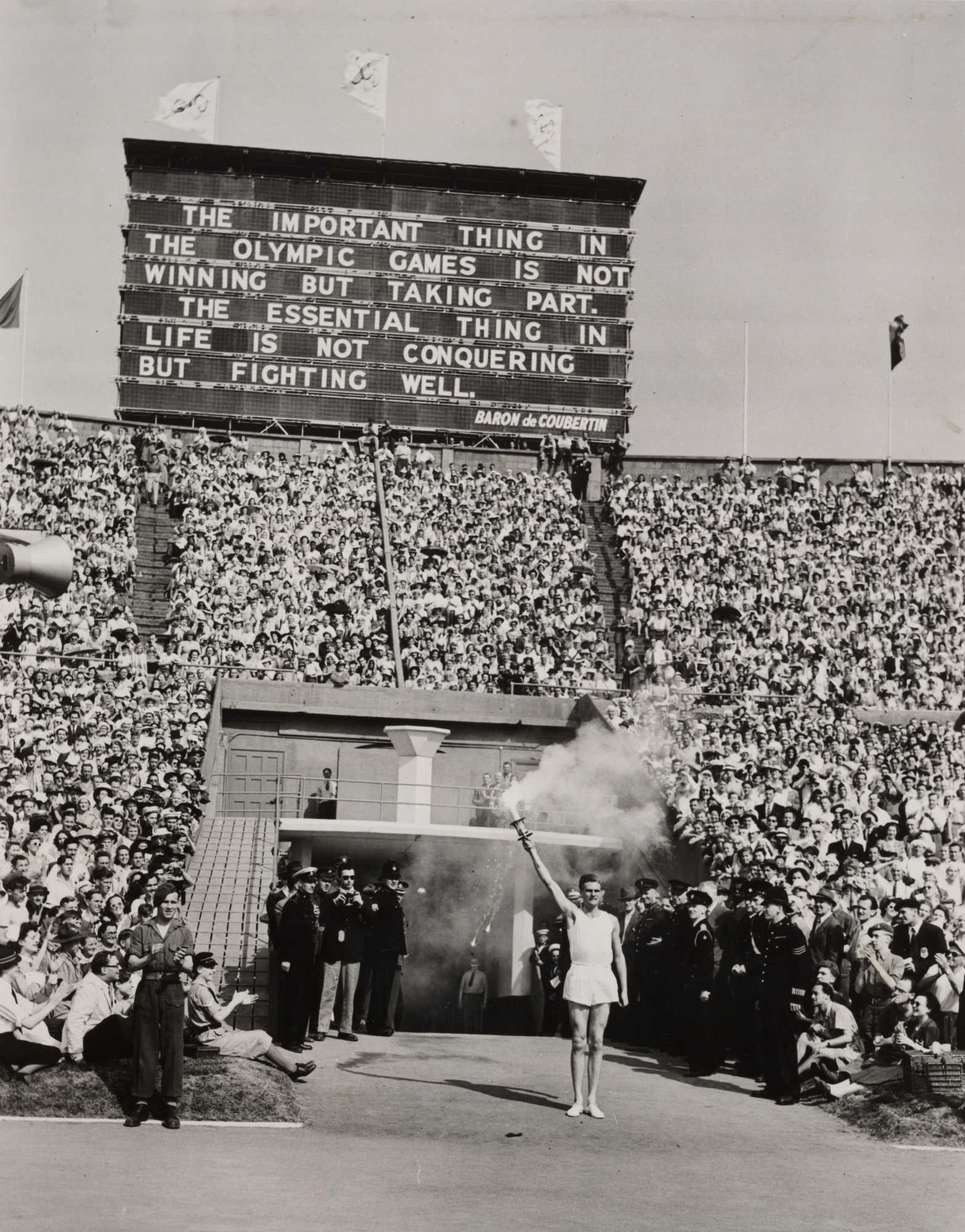 The torch bearer, John Mark, the last of the runners bringing the Olympic flame from Greece, and arrived at Wembley Stadium for the opening ceremony. Daily Herald Archive at the National Media Museum.